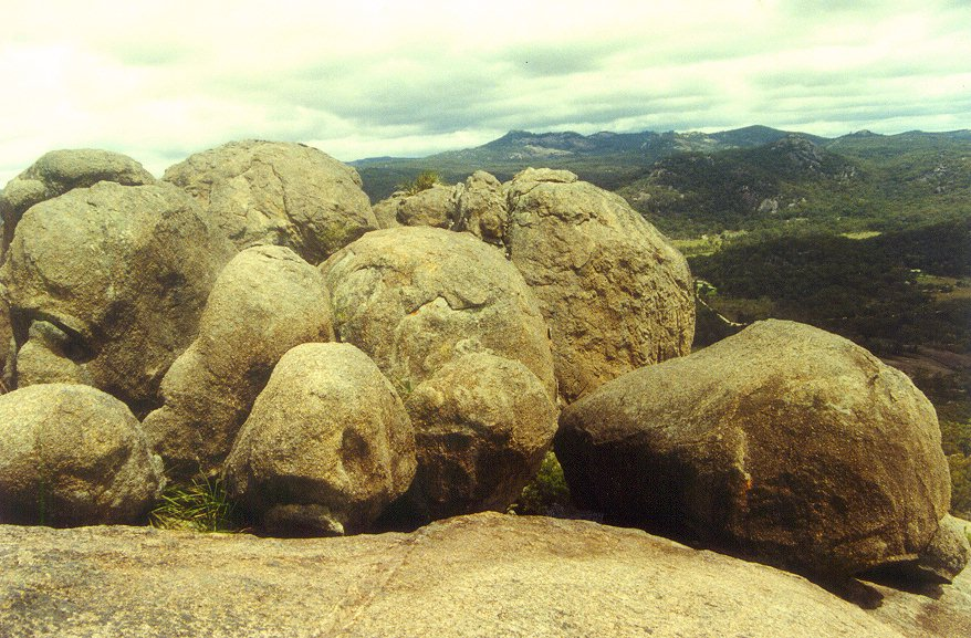 Granite boulders and vista Girraween National Park Photo - Cas Liber